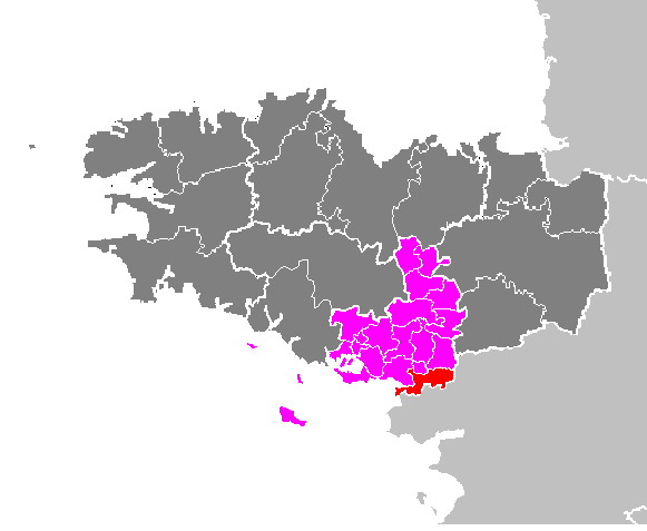 Maps of arrondissements and cantons of France: Arrondissement de Vannes - Canton de la Roche-Bernard.PNG